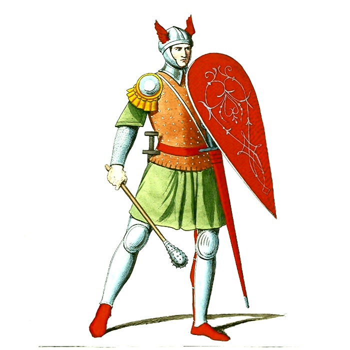 Illustration by Paul Mercuri from "Costumes Historiques" (Paris, ca.1850′s or 60’s). Scanned and archived at where it was marked as Public Domain.